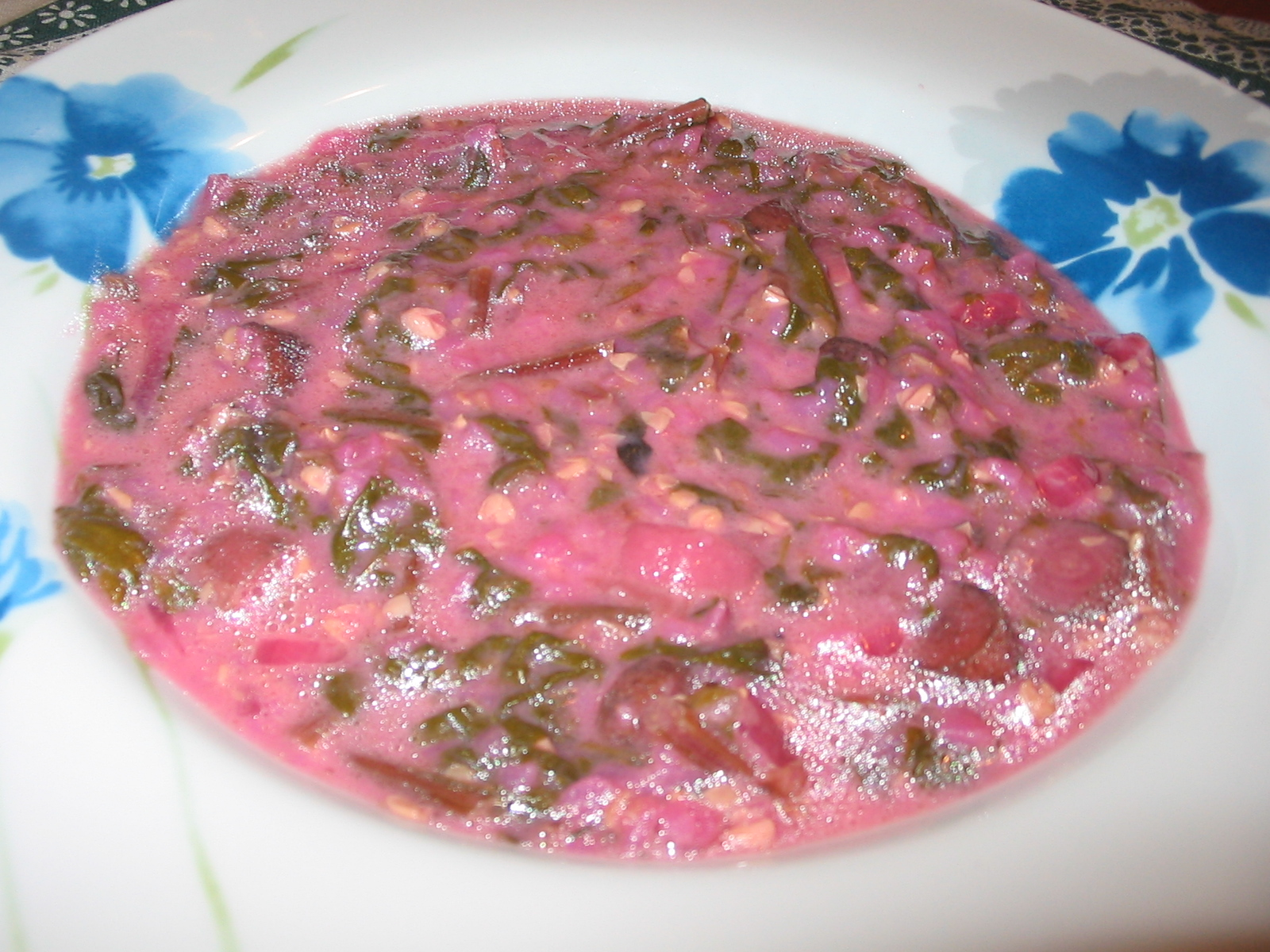 Buryachinka - soup made of beet greens and halms and maize samp with sour milk and sour cream